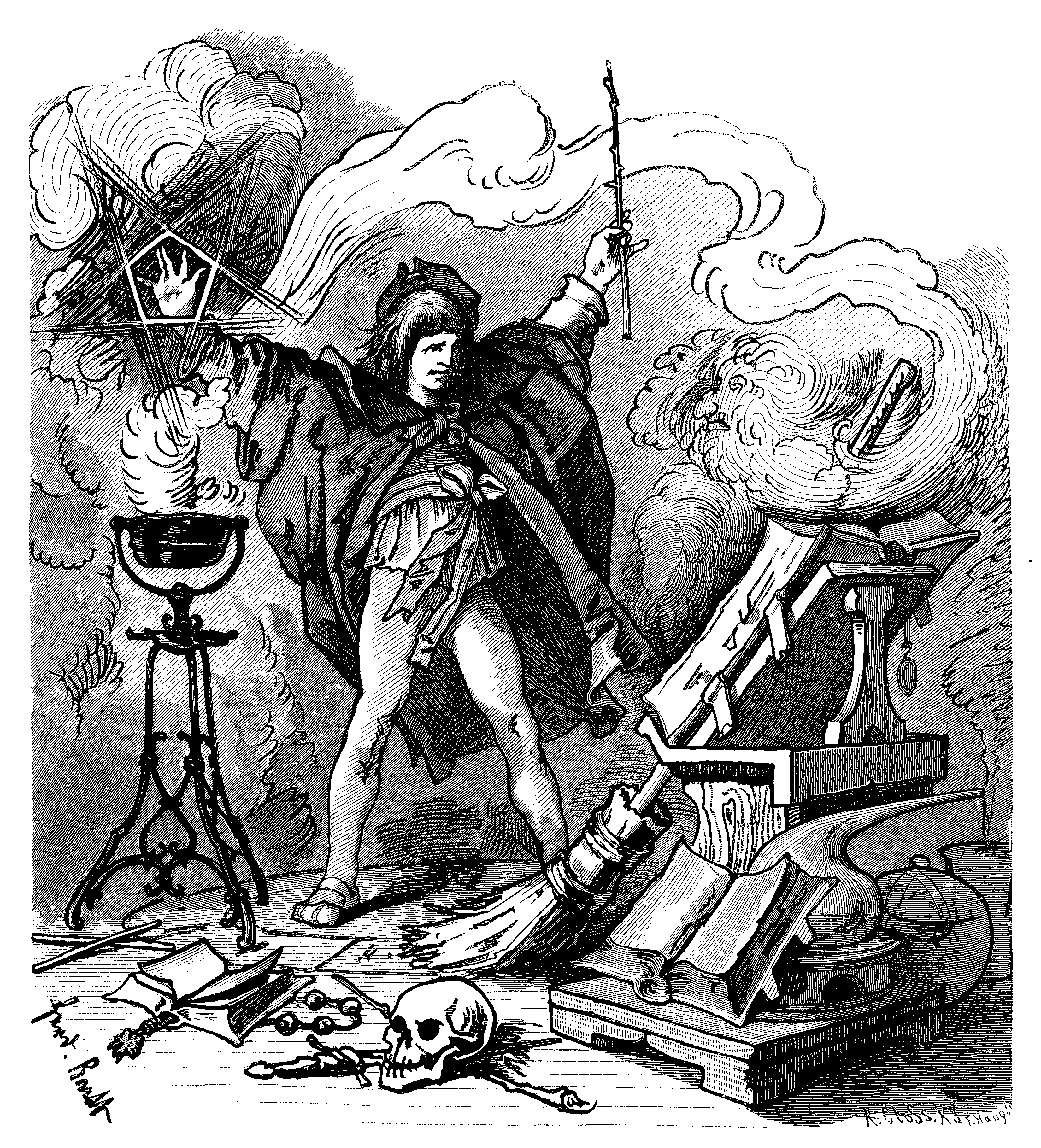 Illustration of Der Zauberlehrling. From: German book, "Goethe's Werke", 1882, drawing by Ferdinand Barth (Künstler) (1842–1892)